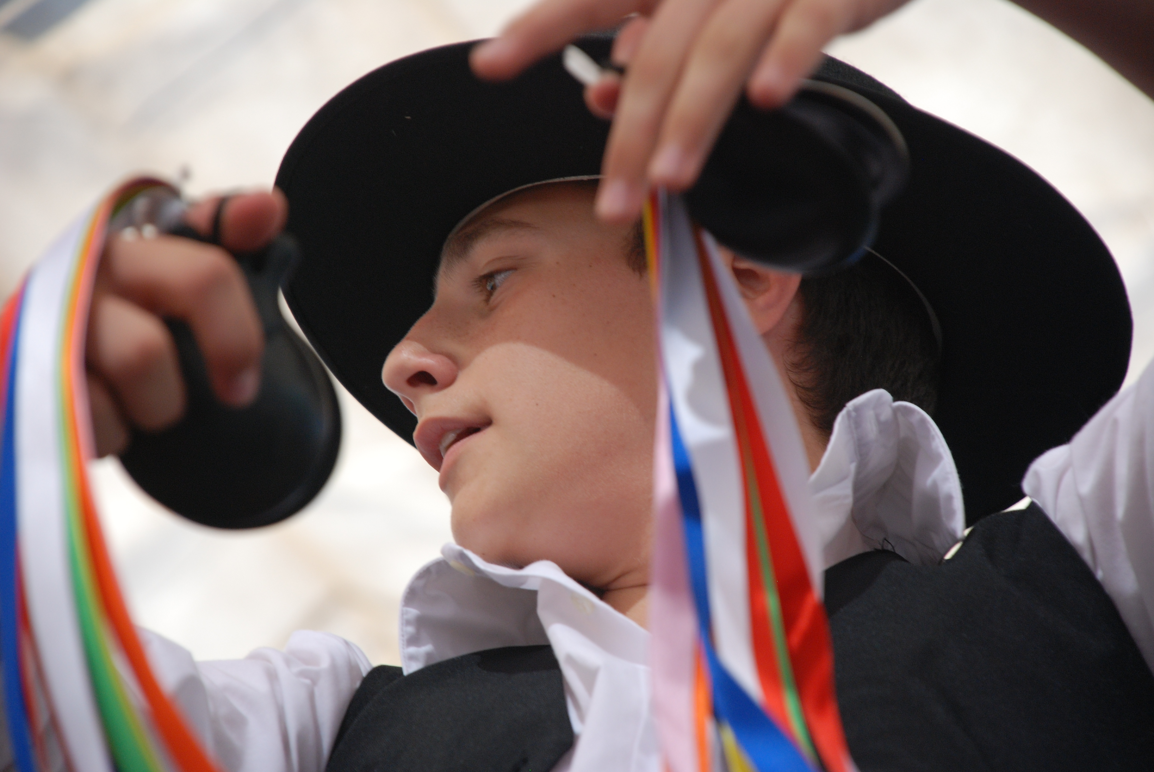 'Verdiales' dancer, Malaga Fair, Spain.